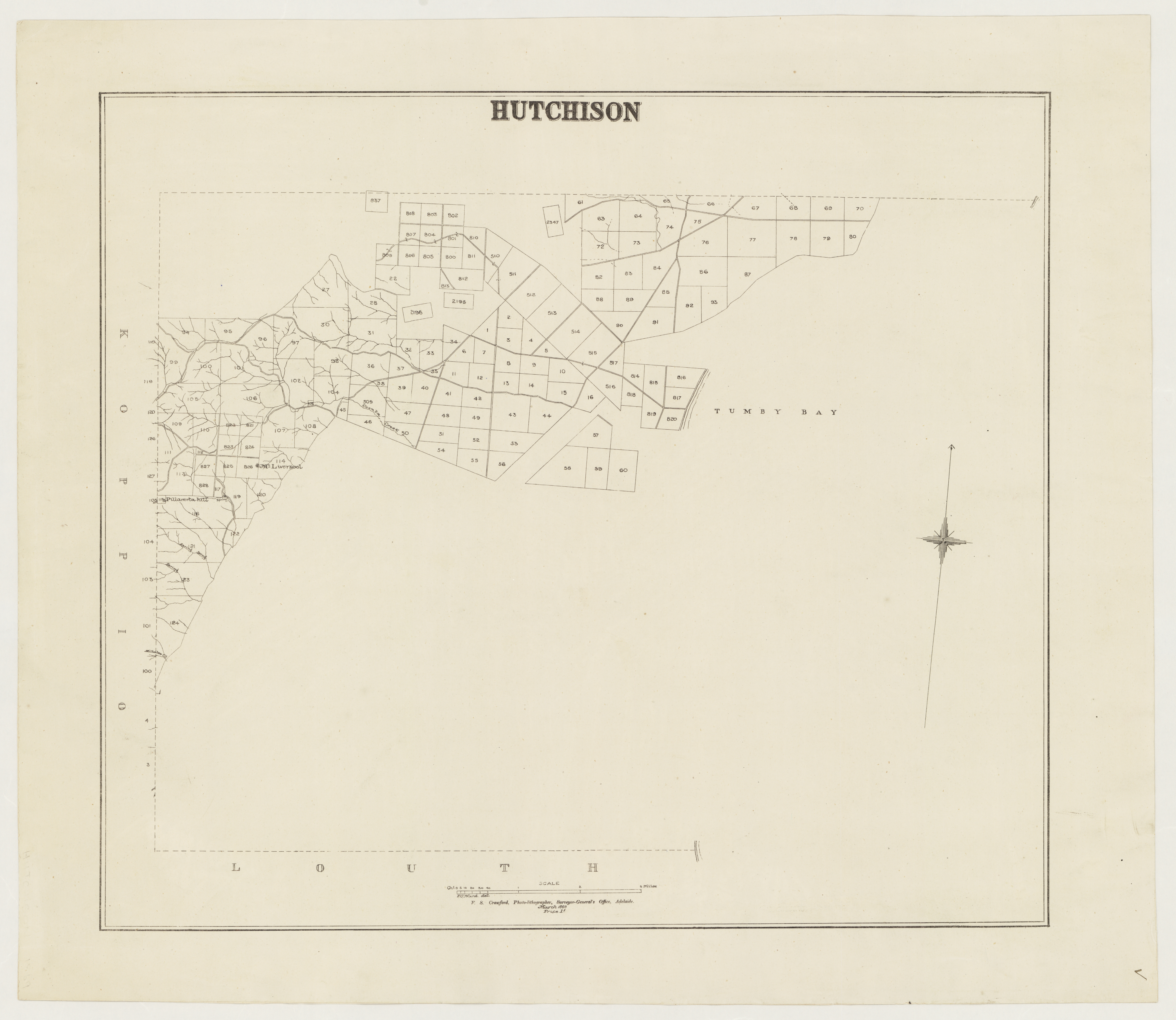 View additional information for this map Filename: map830bje63360_hutchison1869_ds.jpg